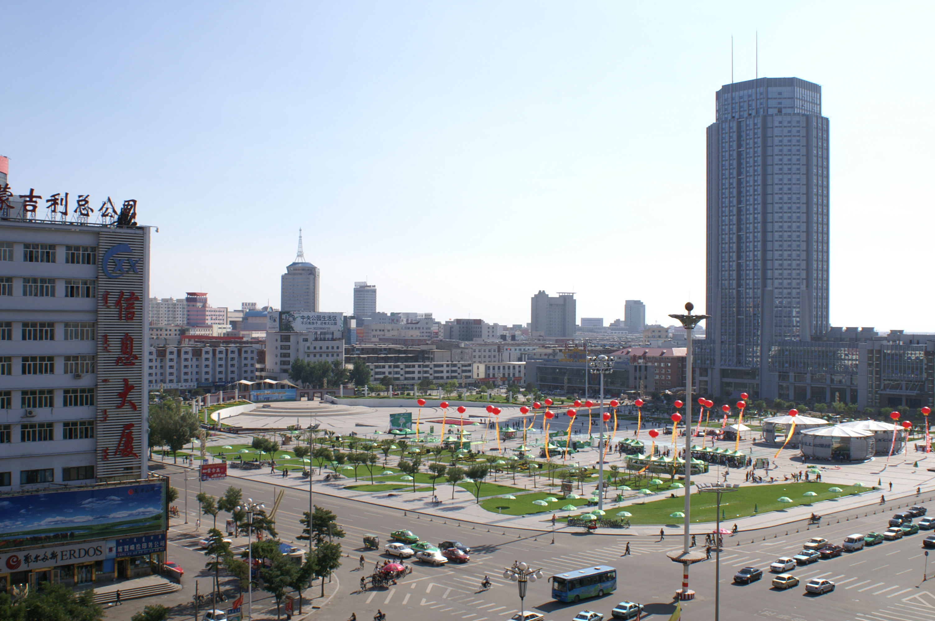 Original description : Hohhot, Inner Mongolia, China. A view overlooking the city square from my Hotel. Xinhua Place (新华广场) at Hohhot.